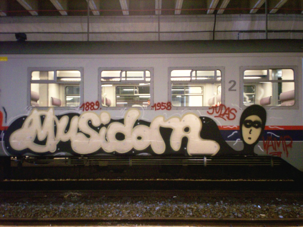 Graffiti on a rapid transit by street artist Judas in commemoration of the French actress and film director Musidora.